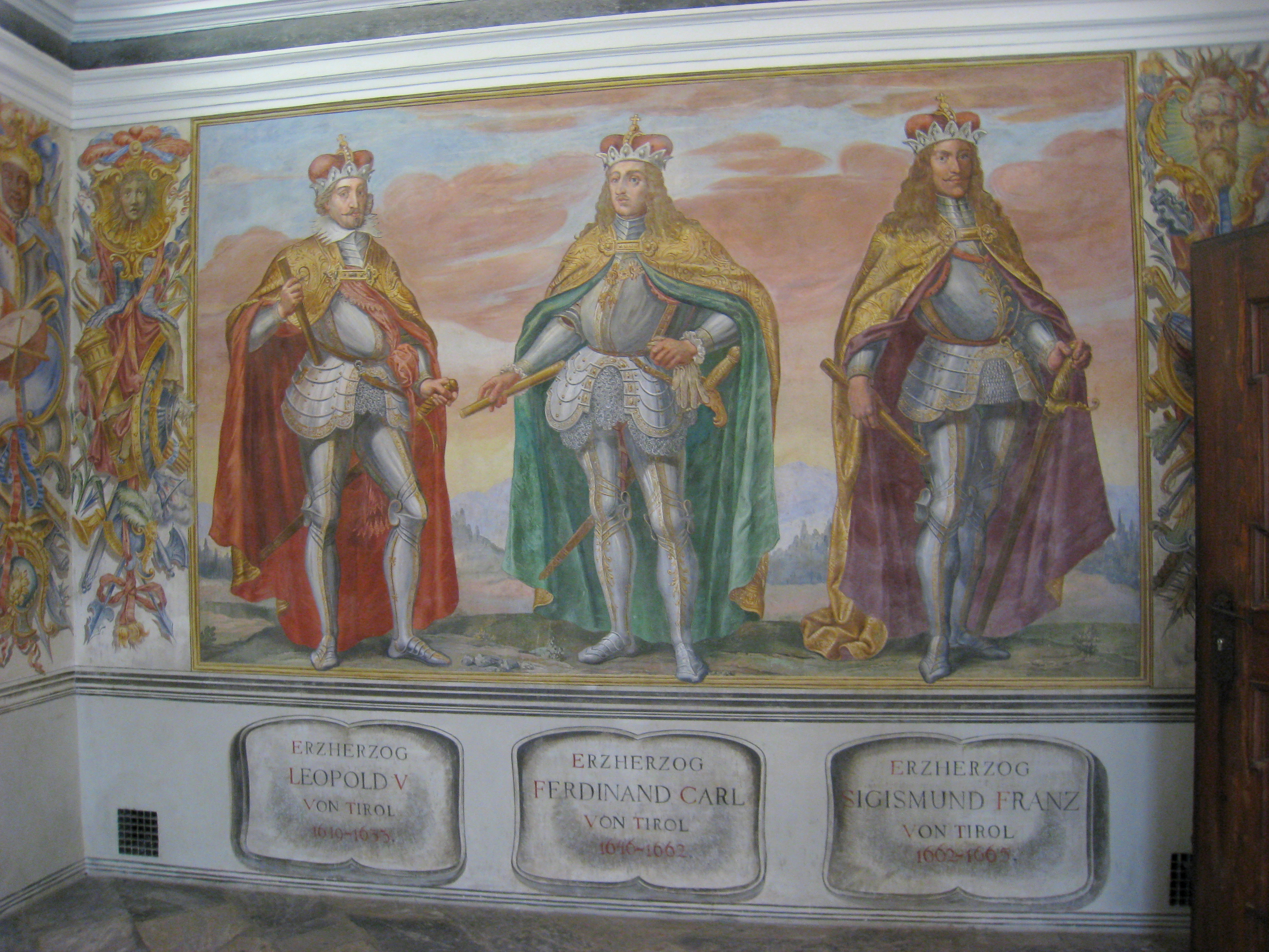 Schloss Ambras, Innsbruck, Austria - Emperor's Room.